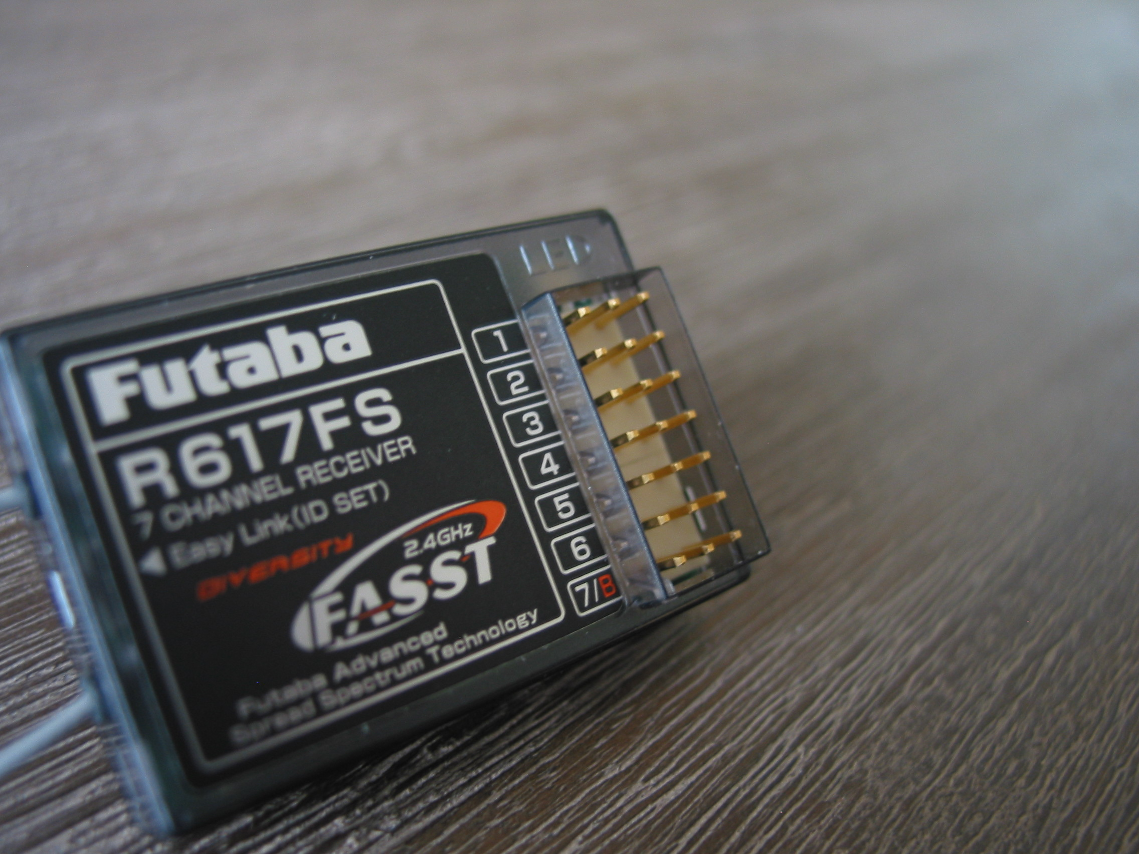 Close up of Futaba receiver